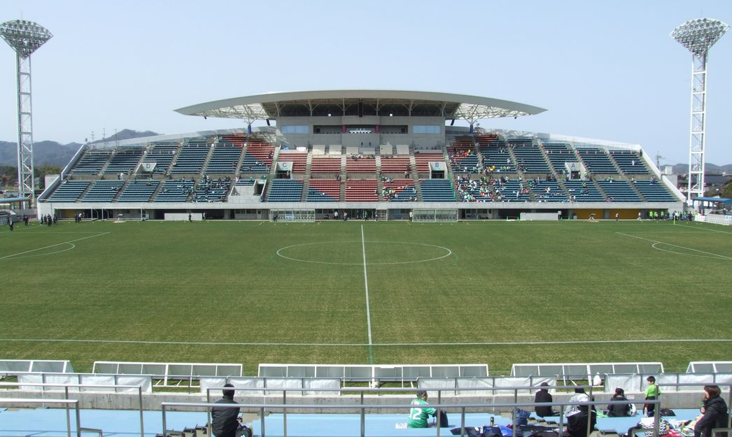 Torigin Bird Stadium